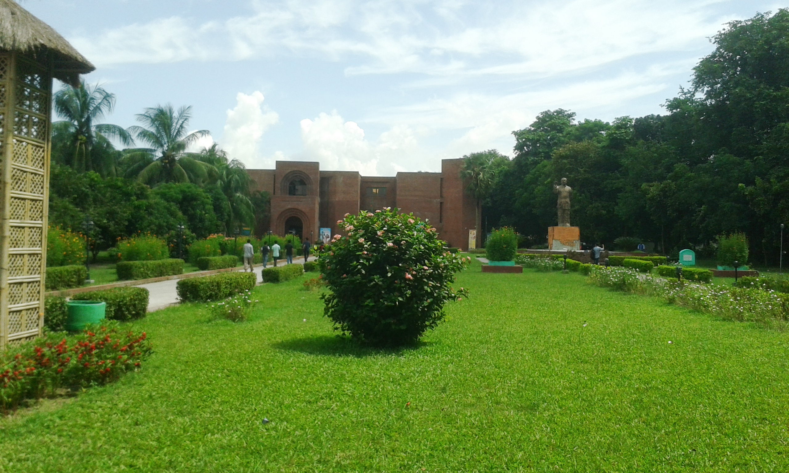 Folk Art and Craft Museum, Sonargaon